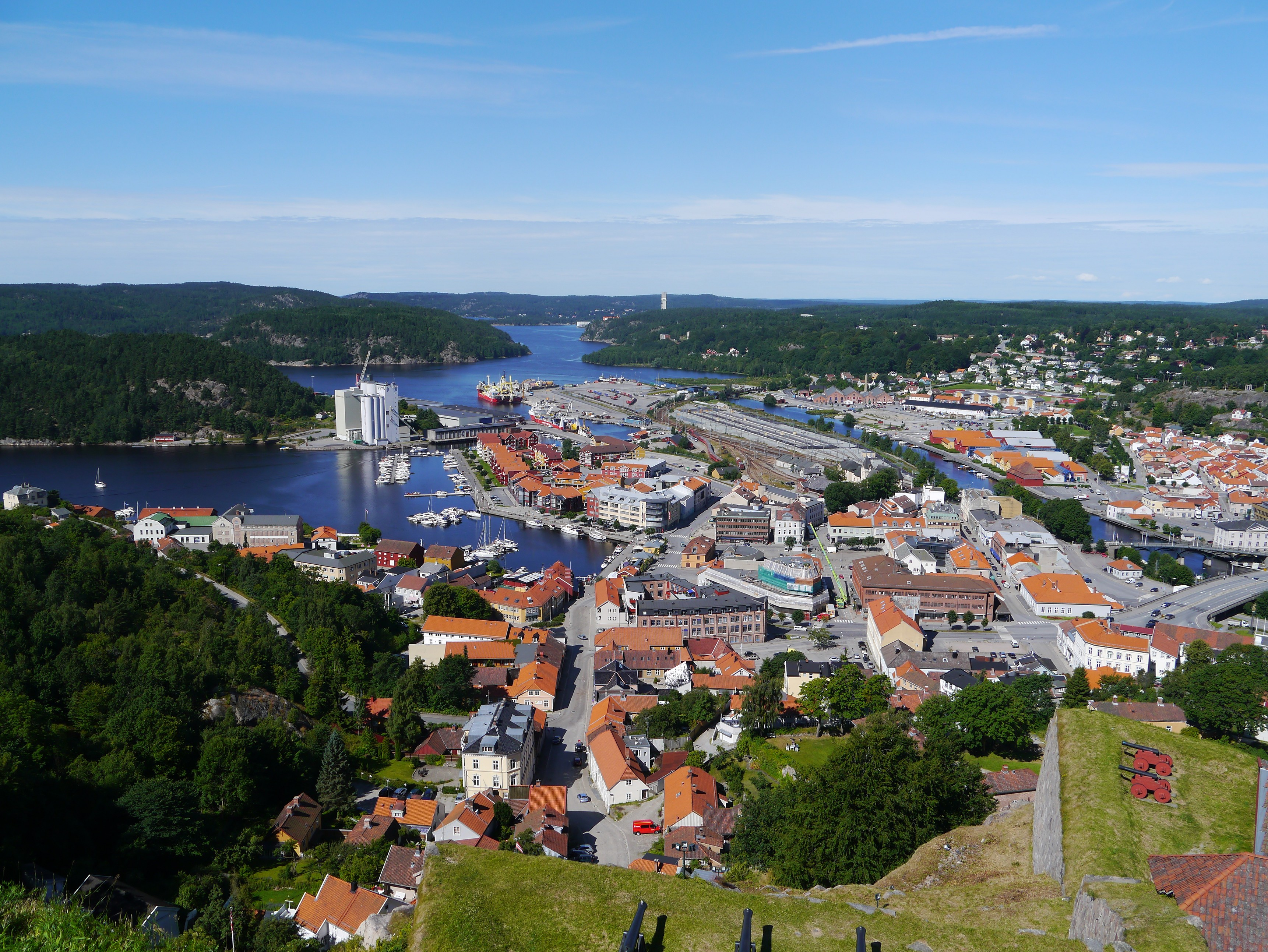 View from Fredriksten fortress to Halden, Østfold County, Southern Norway